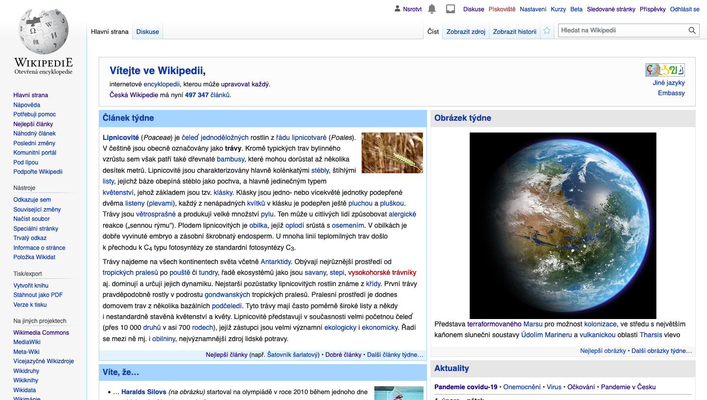 Screenshot of the latest version of the Czech Wikipedia's main page